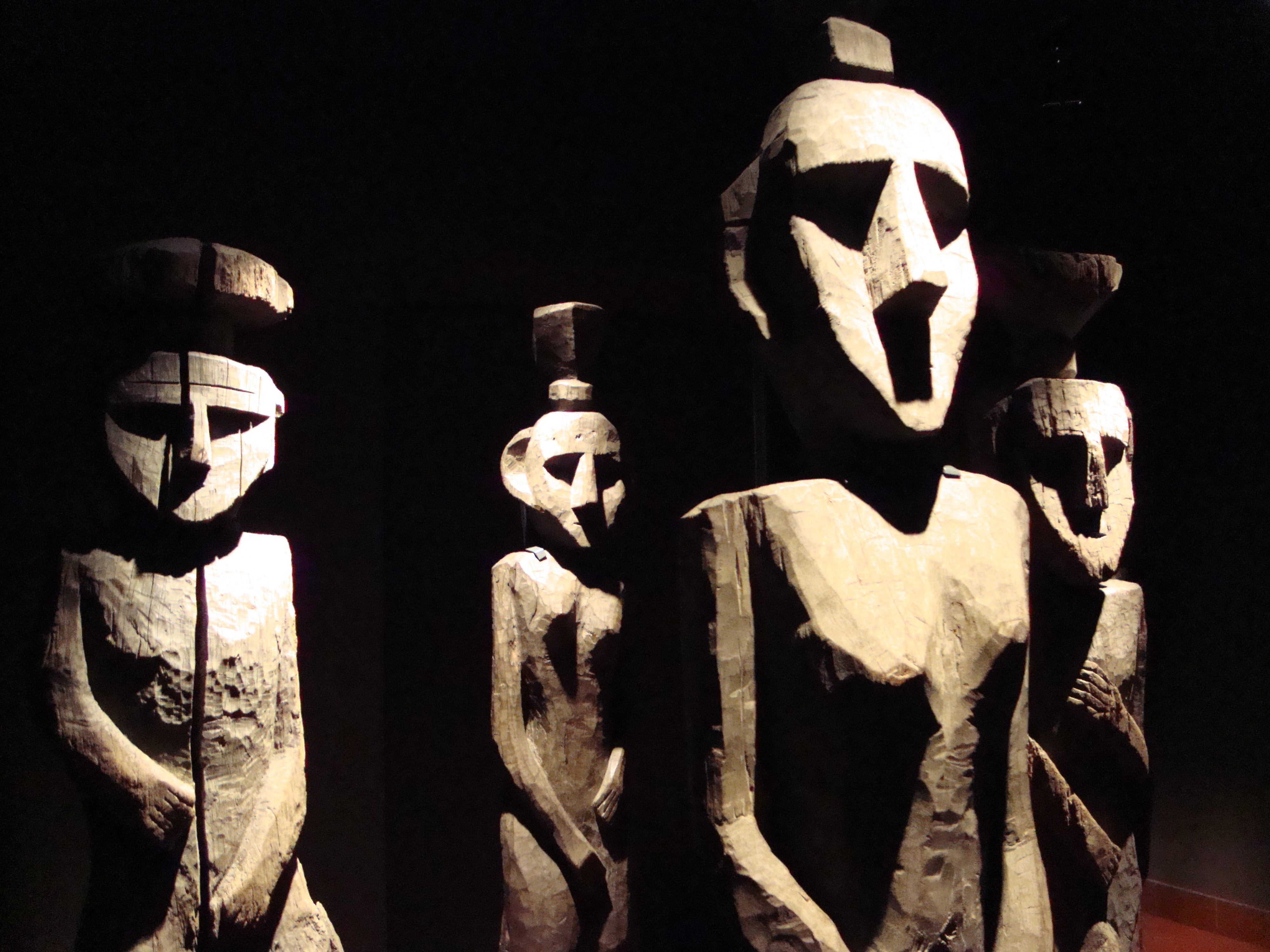 Wooden sculptures in the Museum of Pre-Columbian Art in Santiago, Chile. These are 19th century grave effigies carved by the local Mapuche indigenous people.